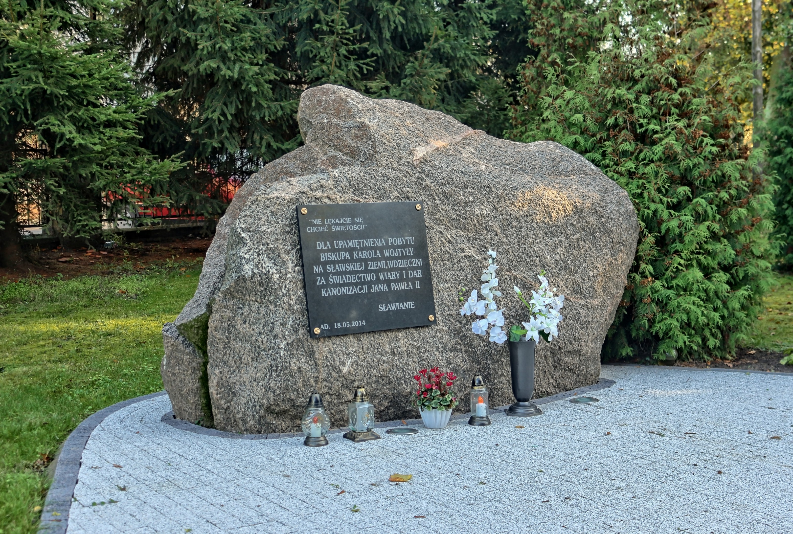 Sława, bishop Karol Wojtyła memorial stone